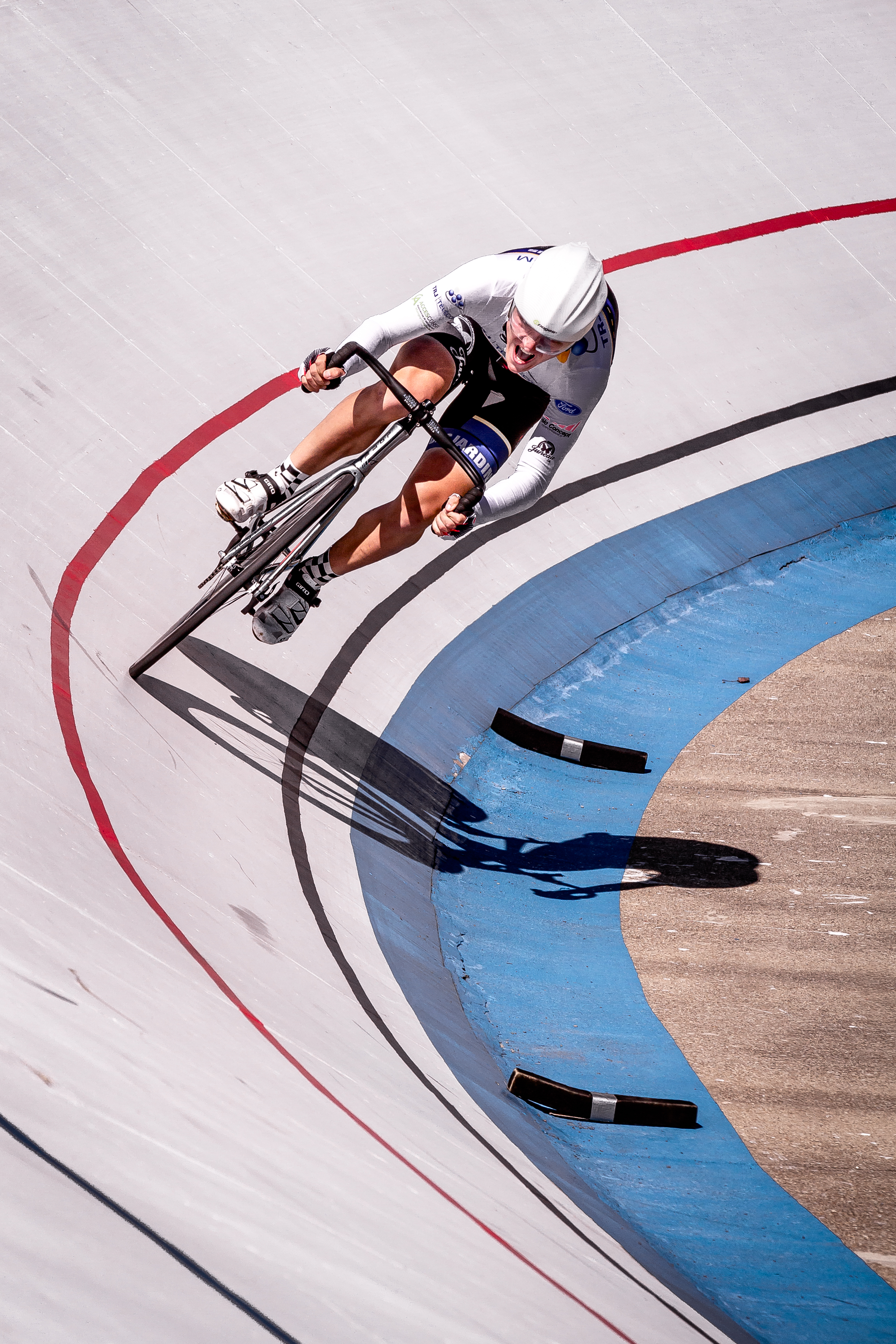 Pier Andre Cote of TRJ Telecom-Desjardins. Quebec Provincial Track Cycling Championships, Bromont, August 26th & 27th, 2016..